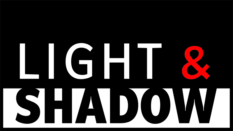 Logo Light & Shadow Productions